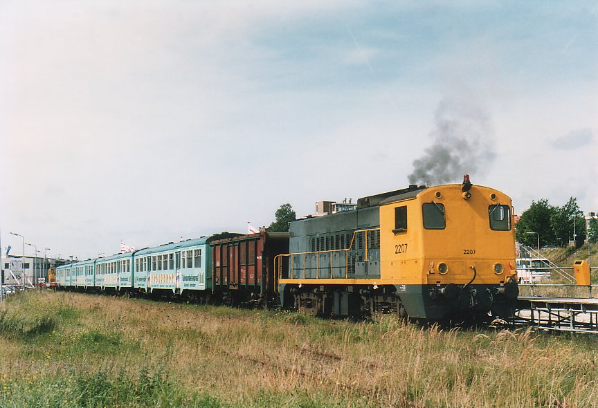 Lovers Rail train at IJmuiden